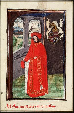 Statuts, Ordonnances et Armorial de l'Ordre de la Toison d'Or (Statutes, Ordonnances and armorial of the Order of the Golden Fleece) Place of origin, date: Southern Netherlands; 1473. Added sections: Southern Netherlands; 1478 or shortly after and 1491 or shortly after Material: Vellum, ff. 86, 249x187 (167x106) mm, 23 lines, littera cursiva (lettre bourguignonne). French. Binding: 18th-century brown leather Decoration: 1 full-page miniature (170x115 mm) with border decoration; 92 miniatures (185/155x120/100 mm); 1 historiated initial (80x90 mm) with border decoration; decorated initials with border decoration (ff., Added section: miniatures ; 4 drawings for miniatures (not finished) Provenance: Presented in 1473 by Gilles Gobet, King of Arms of the Order of the Golden Fleece, to Charles the Bold, Duke of Burgundy and the other Knights during the Chapter of the Order held at Valenciennes; Treasure of the Golden Fleece, Brussls; taken away by the Treasurer C.-F. Humyn (d. 1735) or his daughter C.Ch. de Corte; by legacy to her daughter M.-L. de Corte, wife of Ph.-E. de Poederlé; purchased in 1781 at the Poederlé sale by G.-J- Gérard of Brussels; acquired in 1832 as part of the Gérard collection (no. A 27)